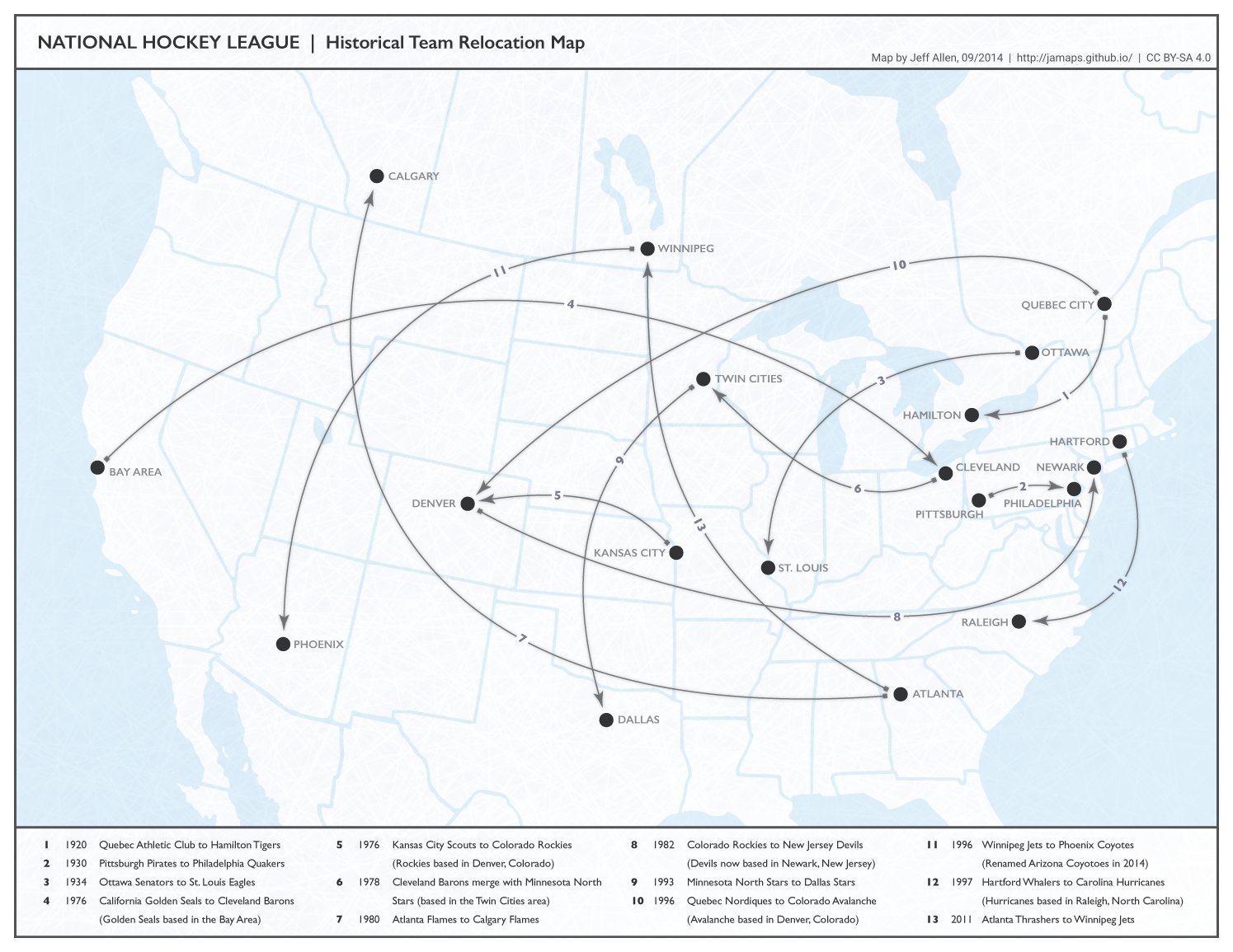 NHL Historical Team Relocation Map